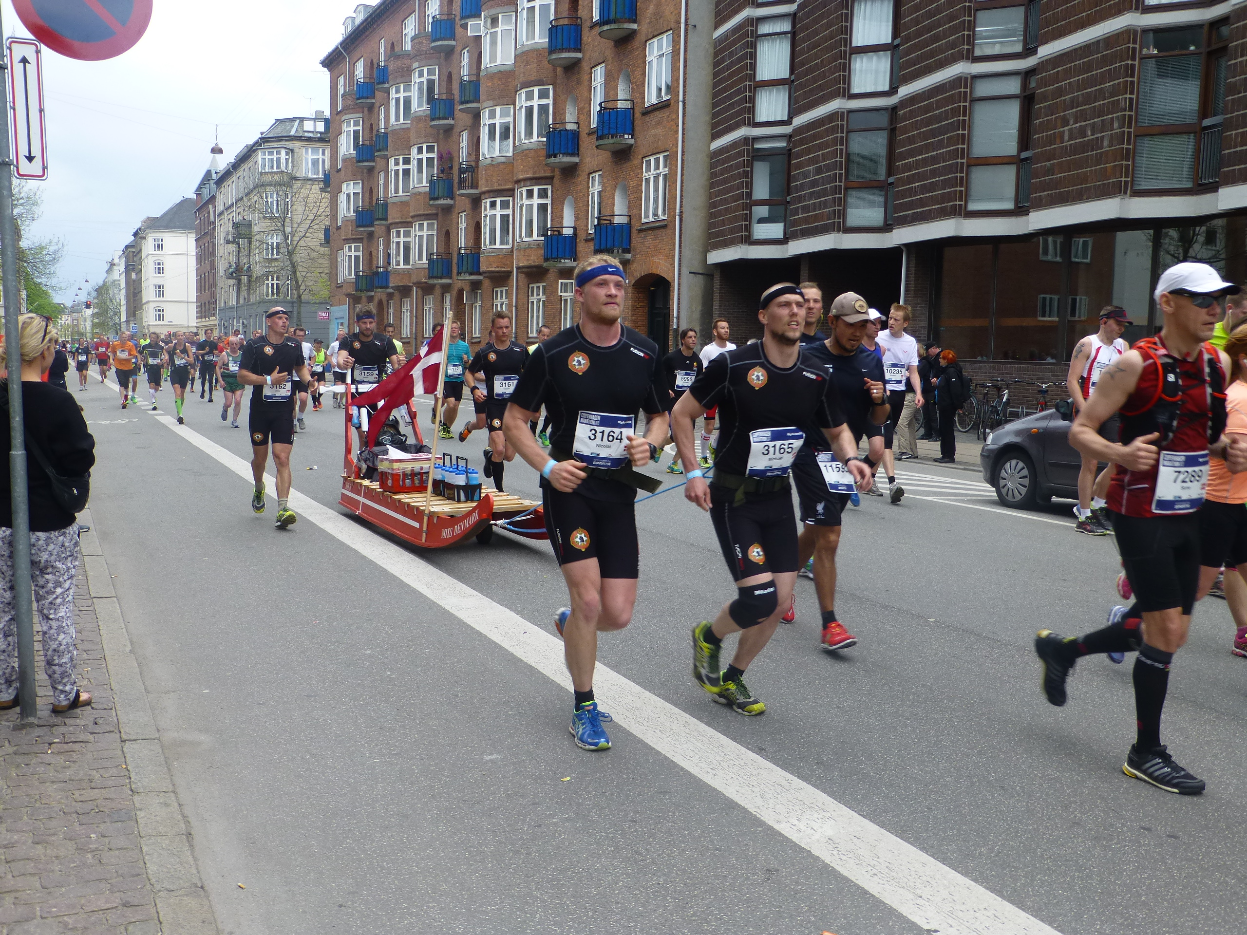 Copenhagen Marathon 2014 on Randersgade in Østerbro in Copenhagen. Slædepatruljen Sirius takes part with their sleigh every year.